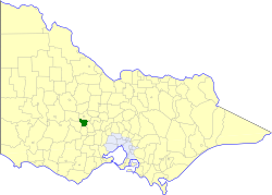 Location of the former Shire of Talbot and Clunes within Victoria.